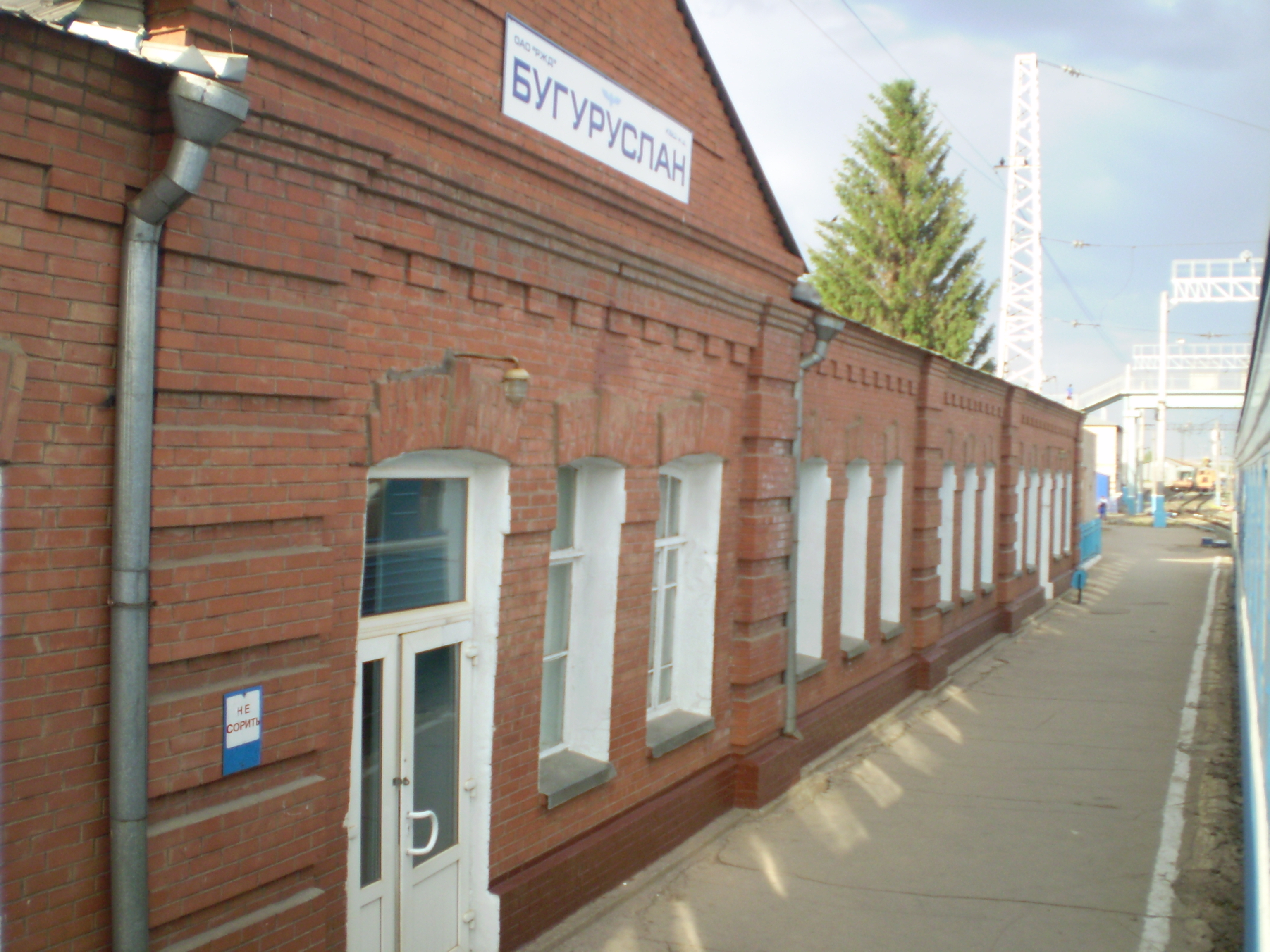 Buguruslan railway train station. View from the near train window. Russia. Orenburg oblast